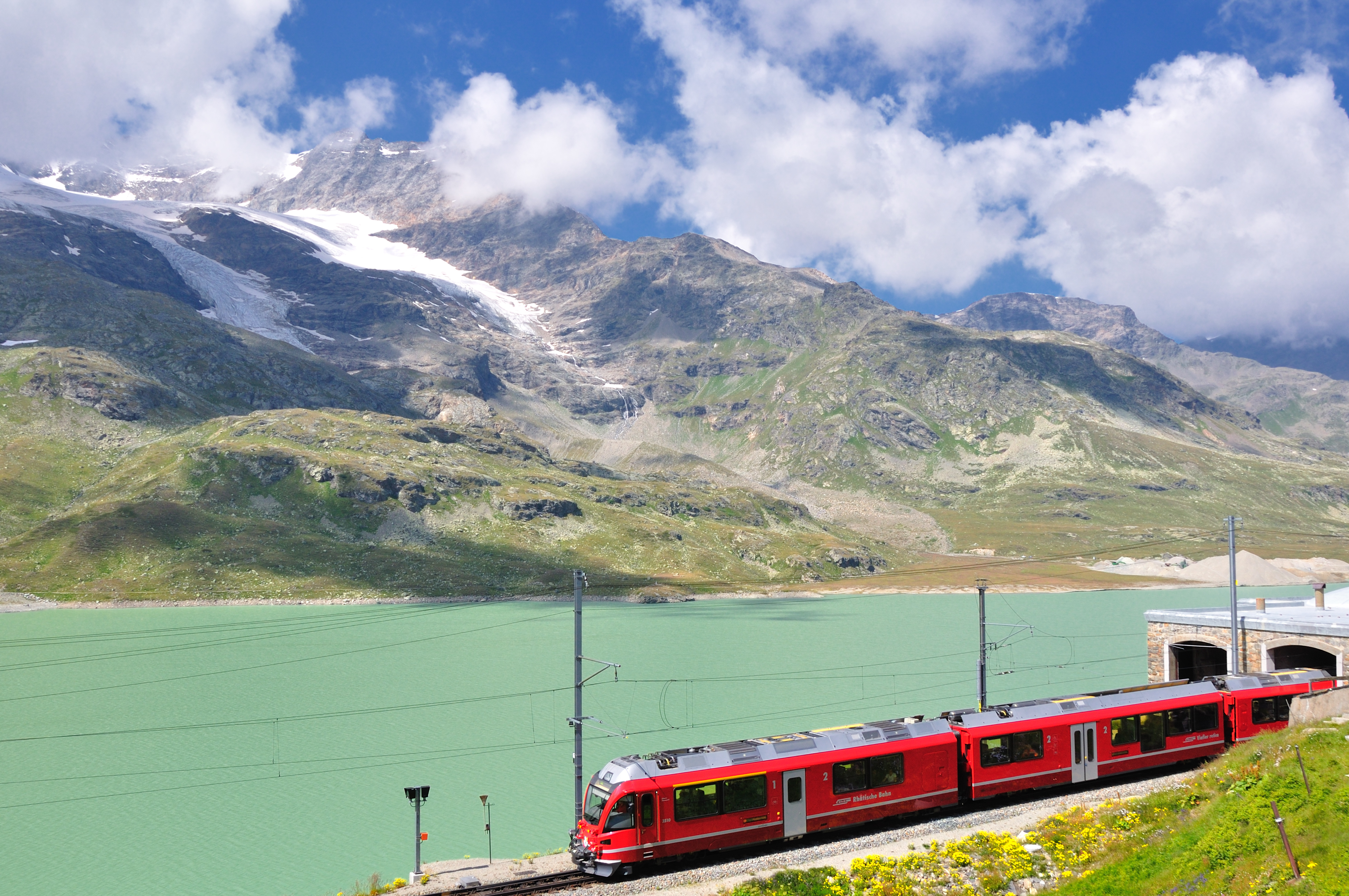 Switzerland, Graubünden, Bernina line of the Rhaetian railway